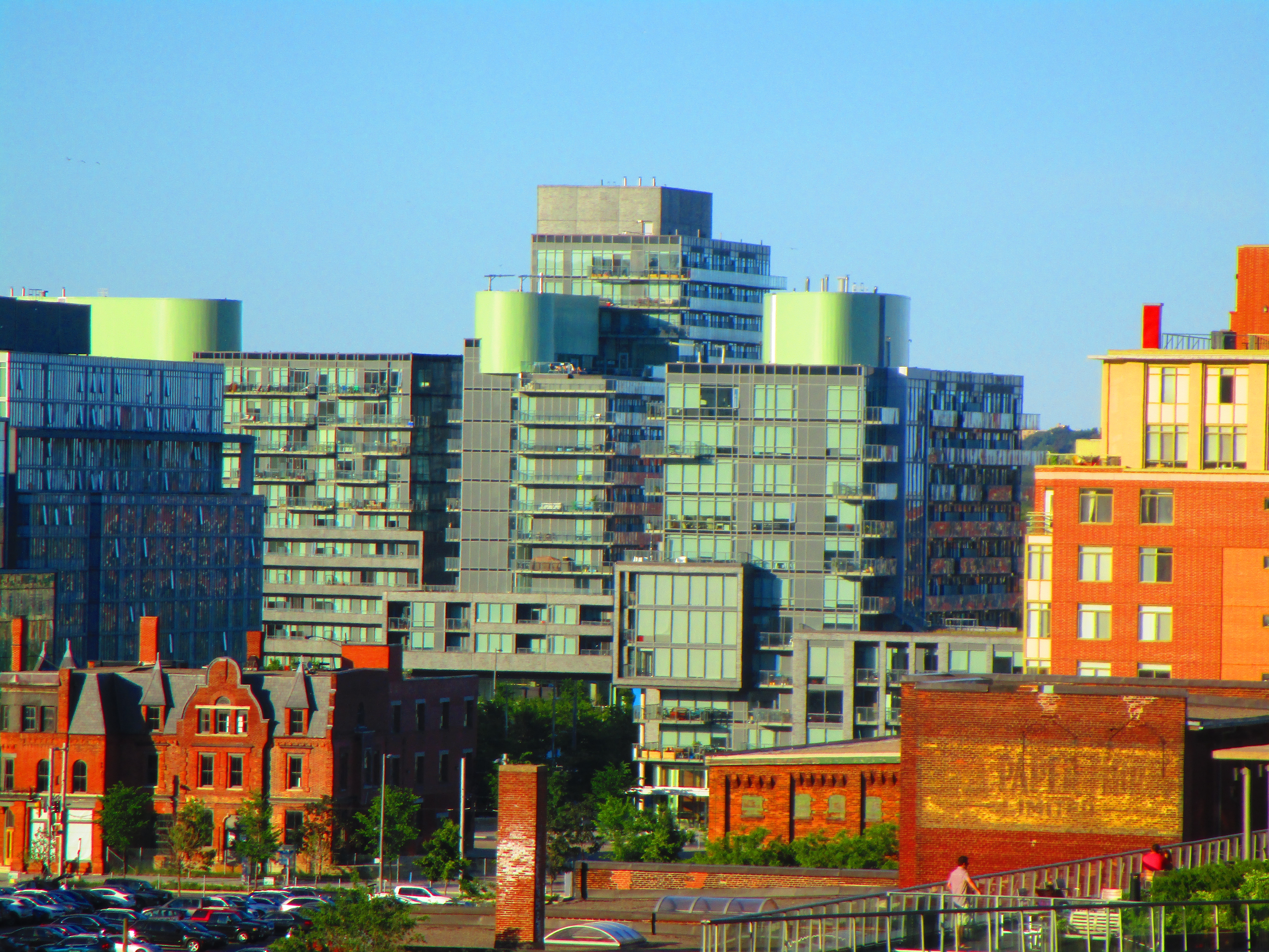 Distant construction cranes on Toronto's skyline, 2017 06 14 -c